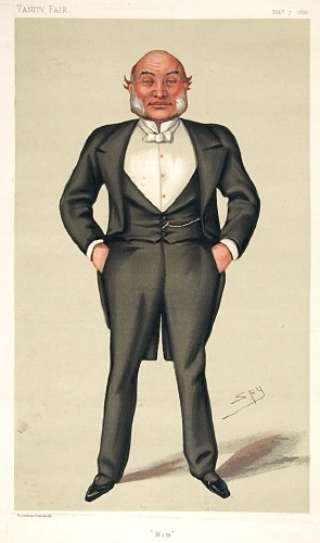 Men of the Day No.217: Caricature of Vice-Adm Sir Reginald John Macdonald KCSI. Caption reads: "Rim"